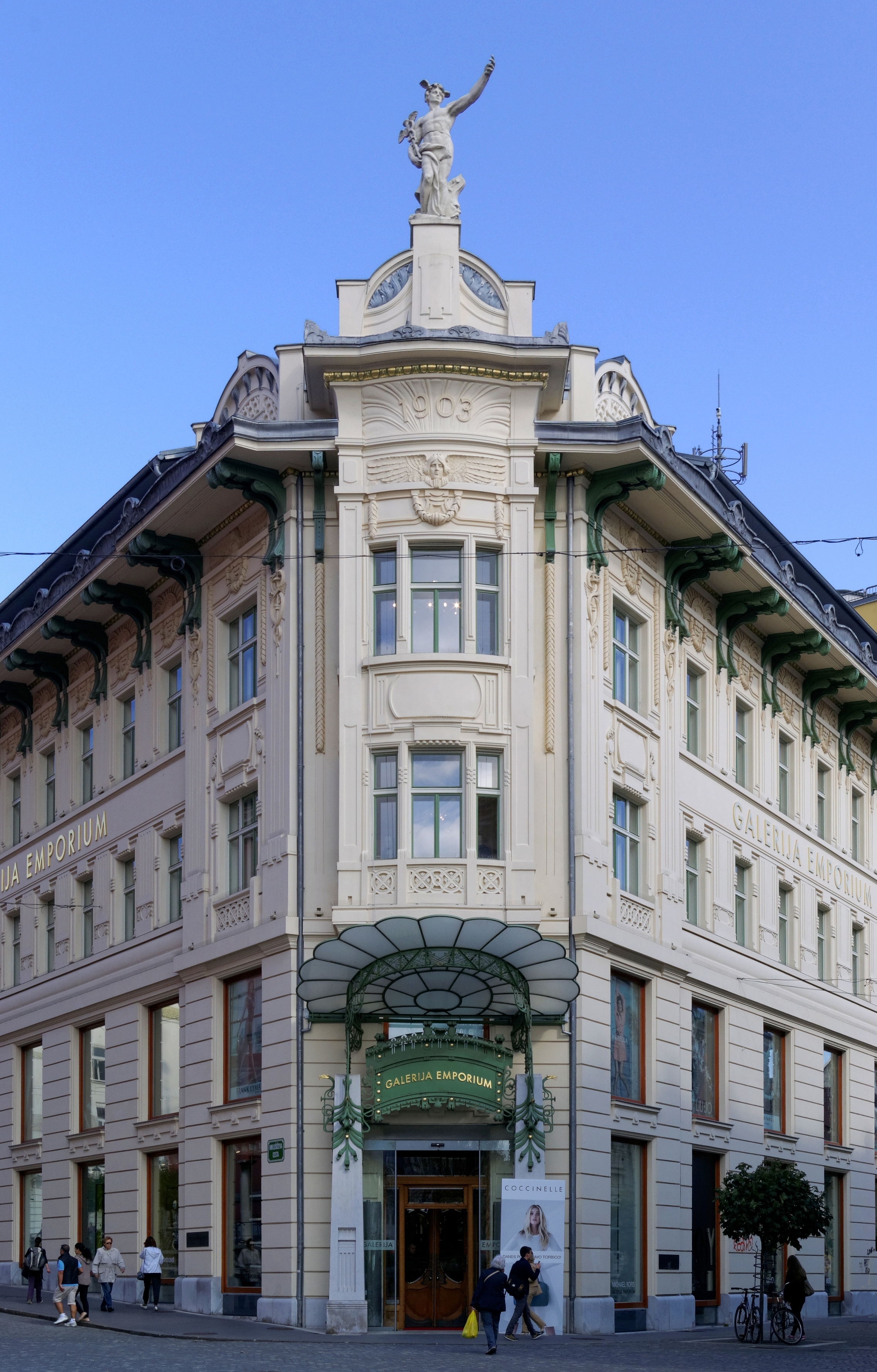 Slovenia, Ljubljana, Urbanc House at Prešeren Square